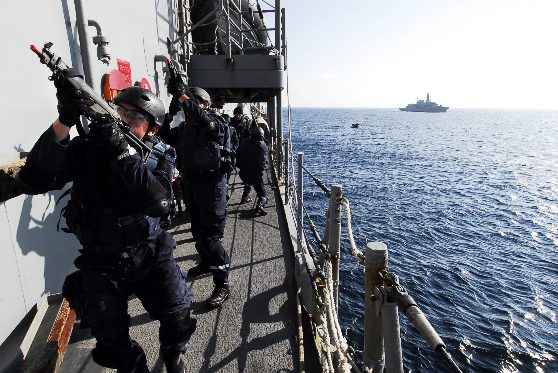 PACIFIC OCEAN (June 25, 2009) Chilean sailors assigned to the Chilean Navy frigate CNS Lynch (FF 07) conduct a maritime interdiction operation aboard the guided-missile frigate USS Kauffman (FFG 59). The interdiction training is part of the Chilean-hosted naval exercise Teamwork South 2009. Kauffman is on a four-month deployment to Latin America and the Caribbean as part of Southern Seas 2009, supporting the U.S. Southern Command Partnership of the Americas. Southern Seas focuses on conducting military-to-military engagements and theater security cooperation engagements to enhance relationships with partner nations in the region. (U.S. Navy photo by Mass Communication Specialist 2nd Class Brandon Shelander/Released)